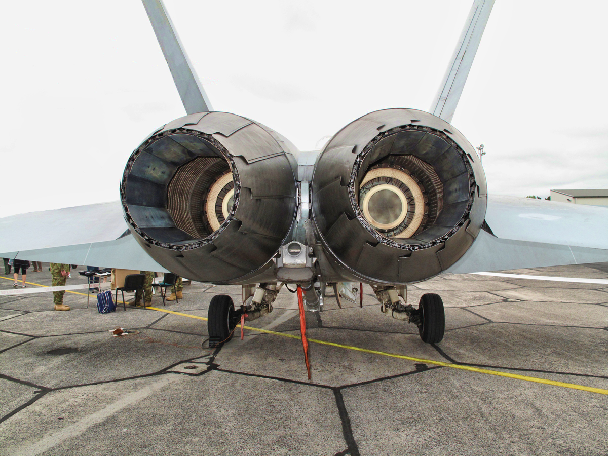 Business end of a Royal Australian Air Force FA/18 photographed by user Greenkeeper at the Whenuapai (NZ) air show on the 21st of March 2009